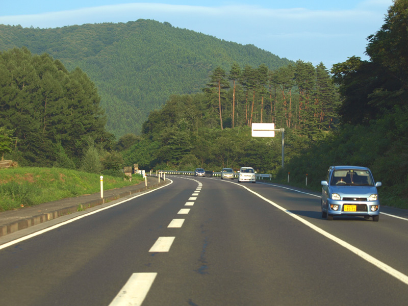 National Route 396 in Miyamori, Tono City, Iwate Prefecture, Japan. There are two lanes on this steep uphill section and slower traffic should keep to the left.